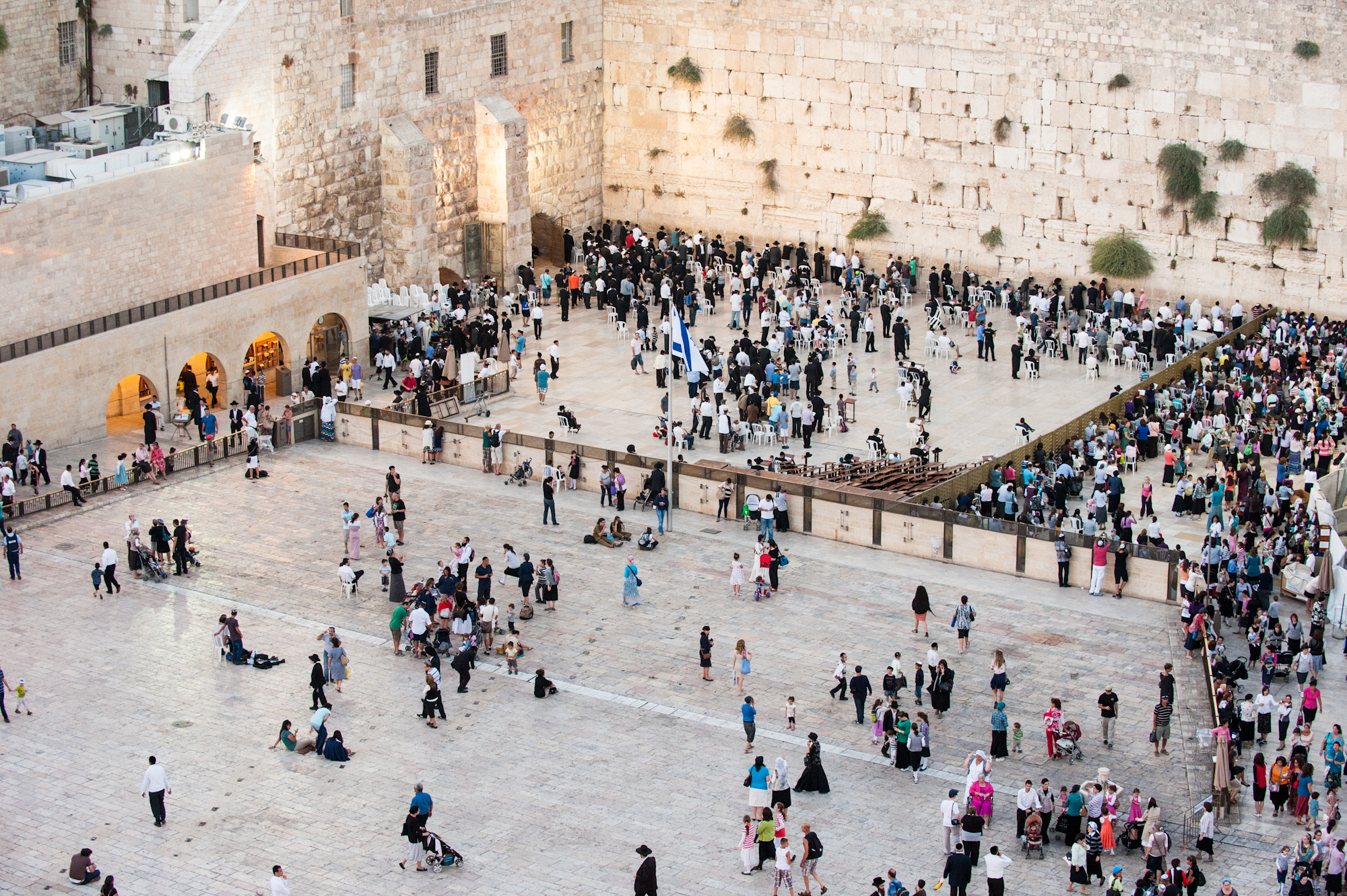 Western Wall in Jerusalem, old city. Most holly place for jewish people.